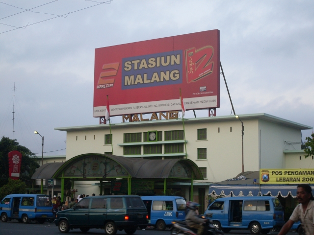 Malang Station